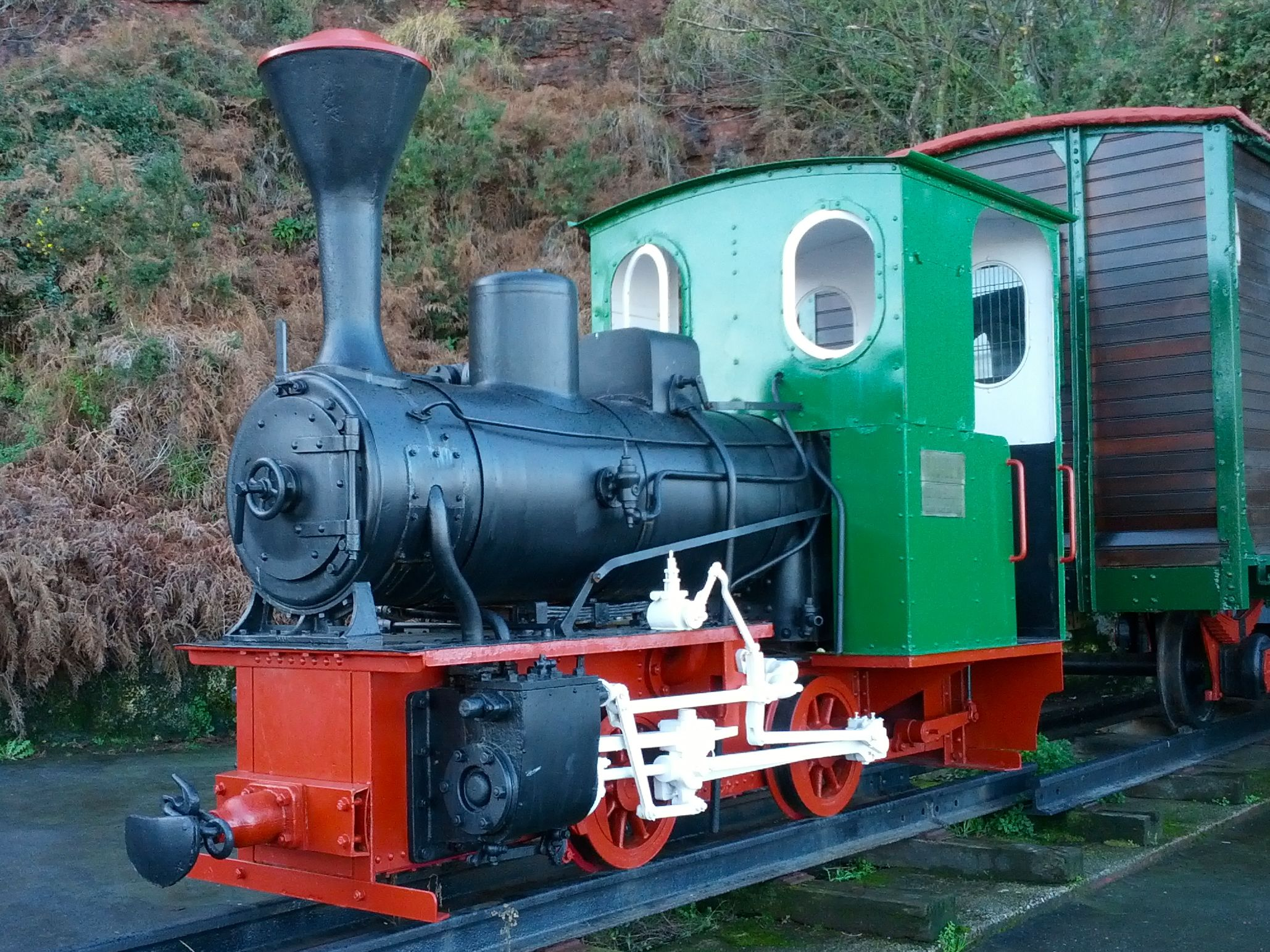 Steam locomotive 0-2-0WT Rojillín #10.995, built by Orenstein&Koppel in 1925 for the Real Compañía Asturiana de Minas, in Torrelavega, gauge 550 mm.